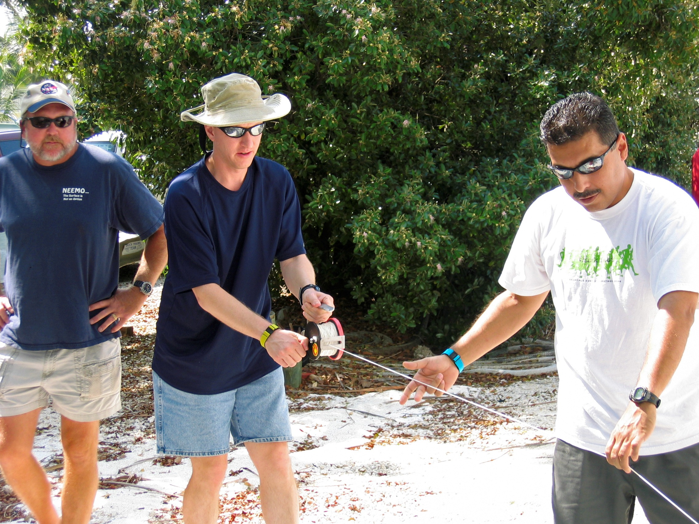 NASA flight surgeon/aquanaut Josef F. Schmid (center) and NASA astronaut/aquanaut José M. Hernández (right) practicing cave-reel techniques while training for the May 2007 NEEMO 12 mission. On left, Aquarius Reef Base aquanaut Mark Hulsbeck assists Schmid and Hernández. NASA photo JSC2007-E-21804.